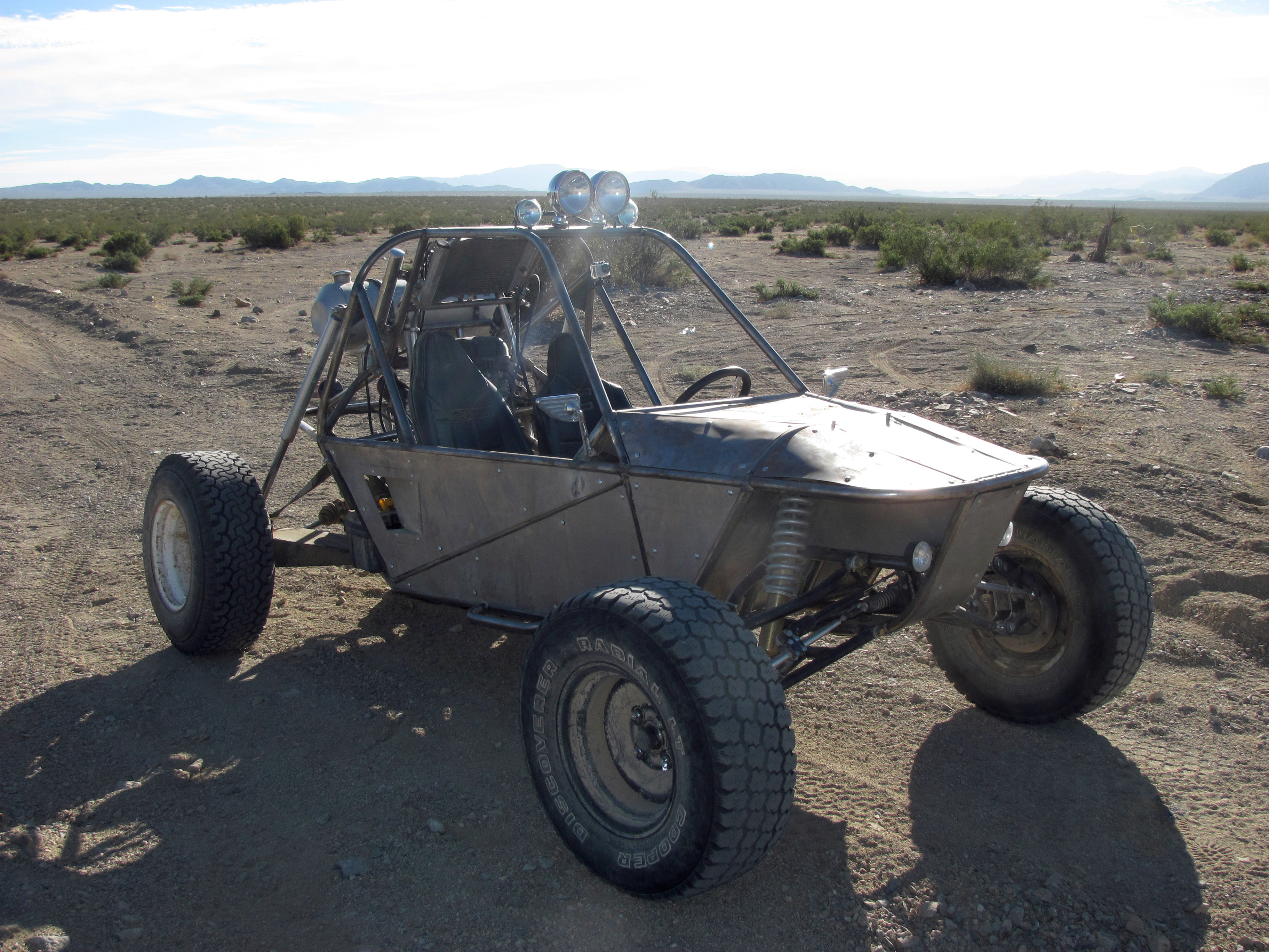 Example of a custom Sandrail.